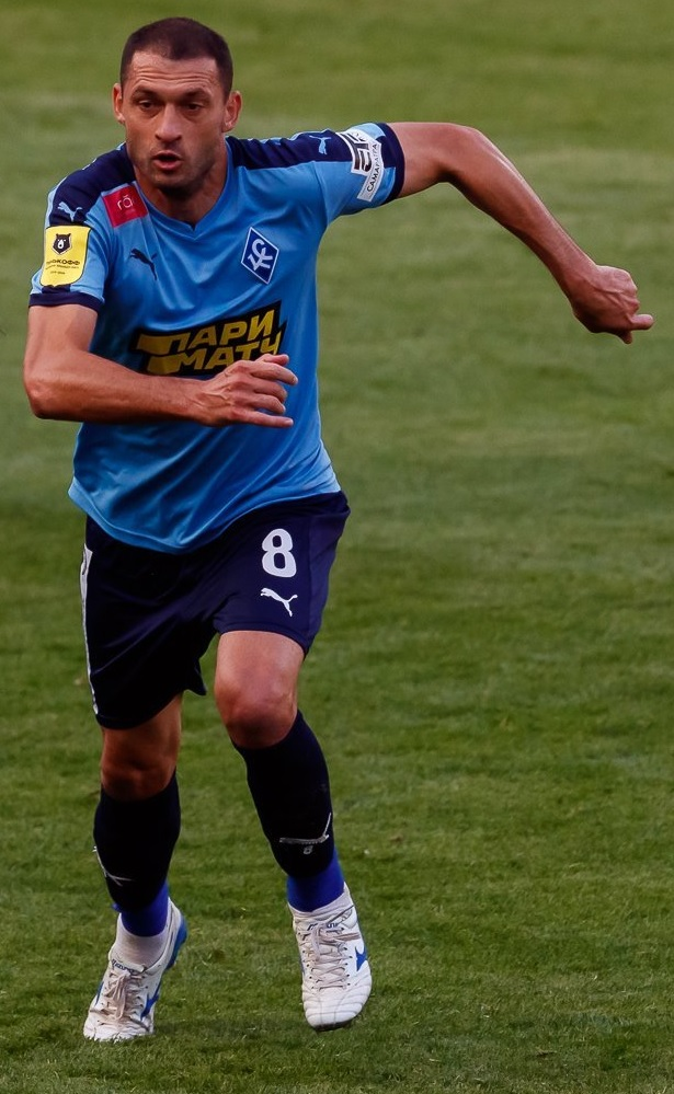 Alexandru Gațcan with PFC Krylia Sovetov Samara in a game against FC Lokomotiv Moscow.